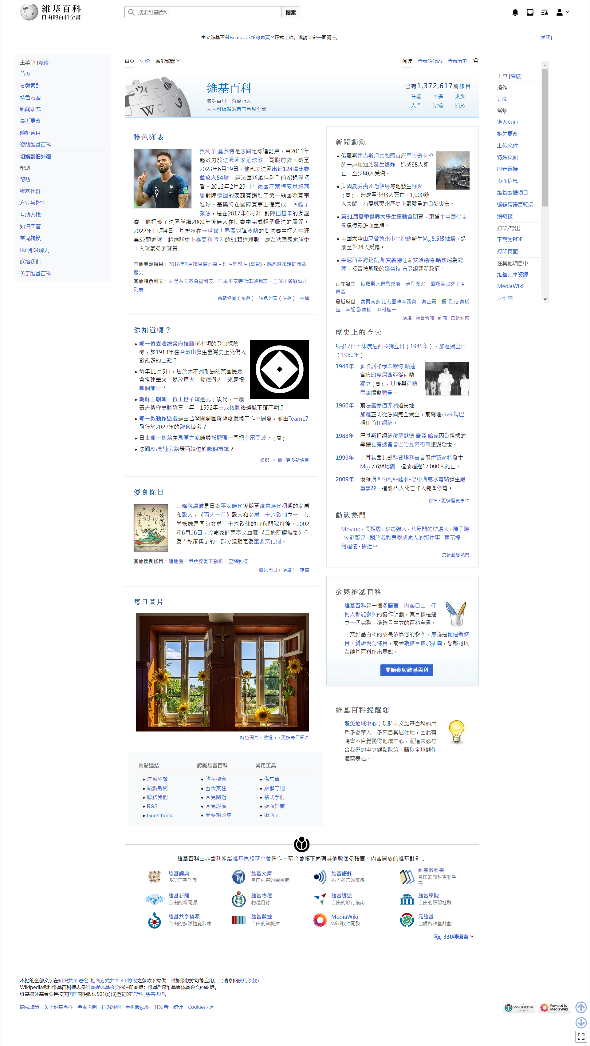 Screenshot of Chinese Wikipedia's main page taken on June 23, 2013